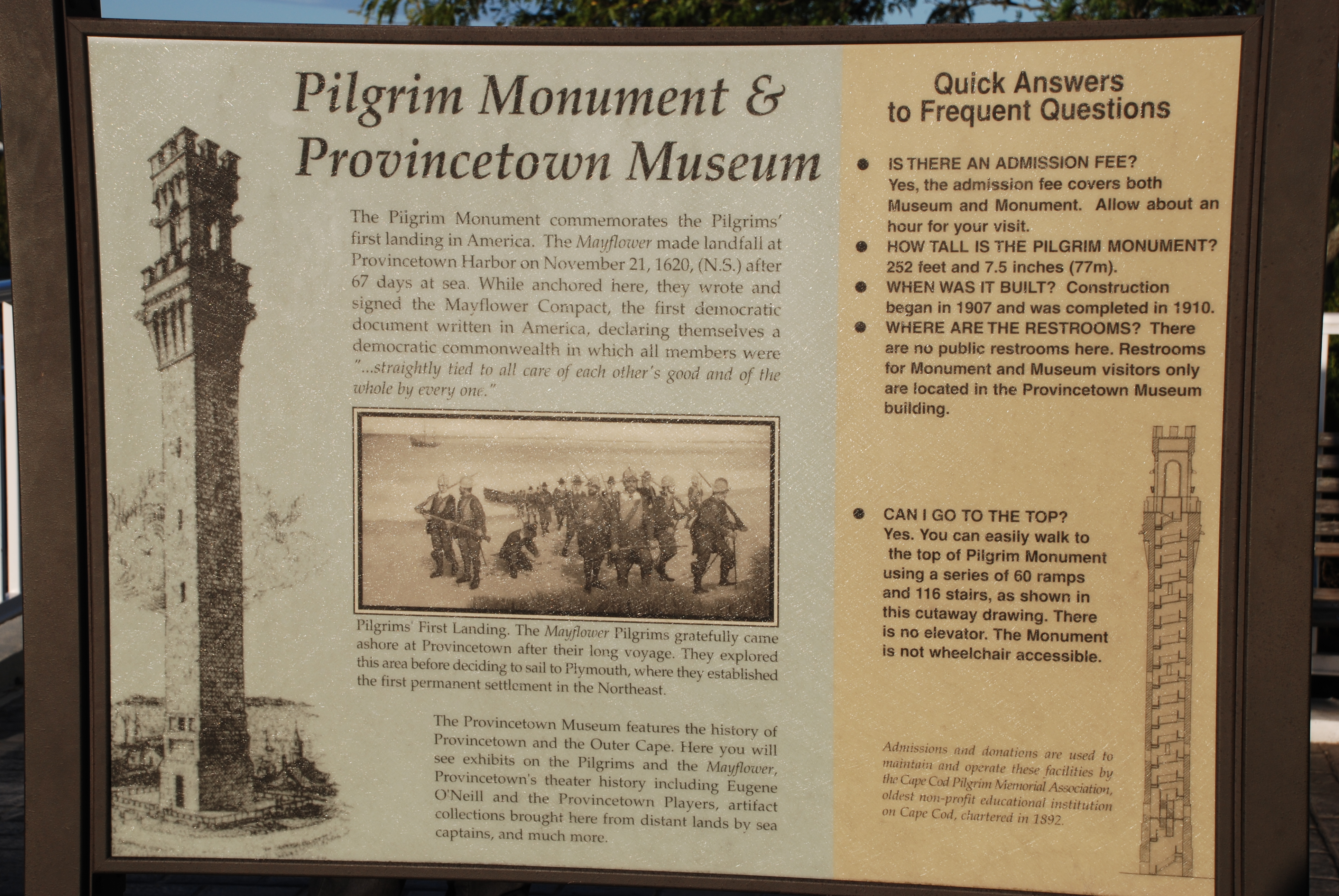 Pilgrim Monument description, Provincetown, Massachusetts, USA